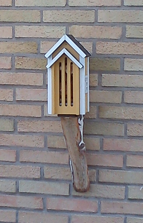 Nest box for butterflies on a brick wall